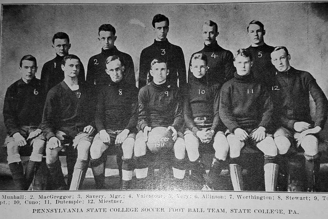 A photograph of the 1911 Penn State Men's soccer team, the first year of the teams existence.